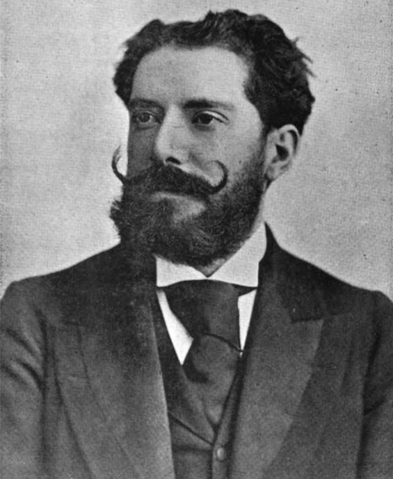 The Spanish violinist, composer and conductor Enrique Fernández Arbós (1863—1939), picture from the magazine 'The Strad', November 1894.